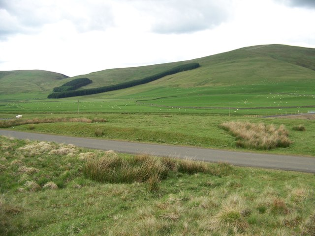 The henge near Normangill The road goes through this ditch and dyke system. The ditch is highlighted by the marsh grass on the left end of the semi-circle.